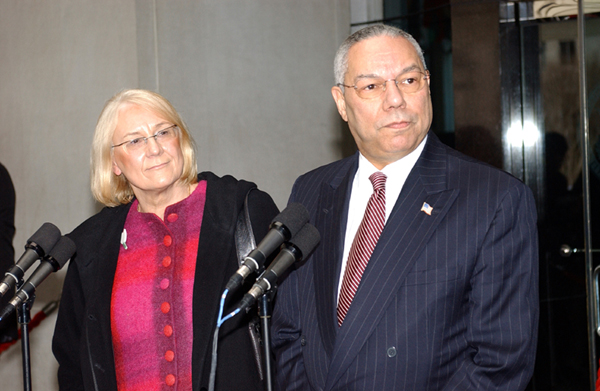 U.S. Secretary of State Colin Powell with Swedish Minister for Foreign Affairs Laila Freivalds in Washington D.C.